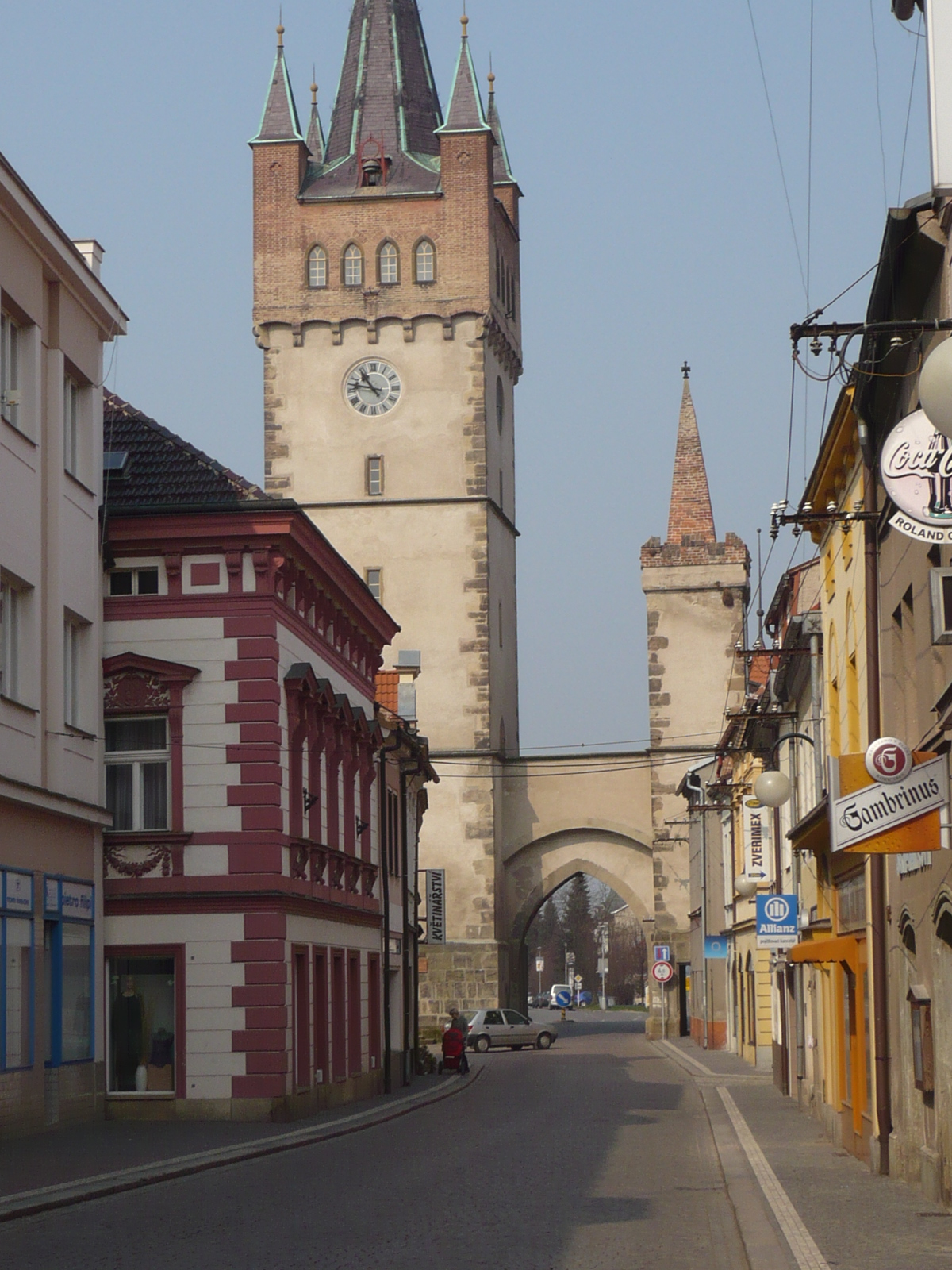 Vysoke Myto - Prazska gate